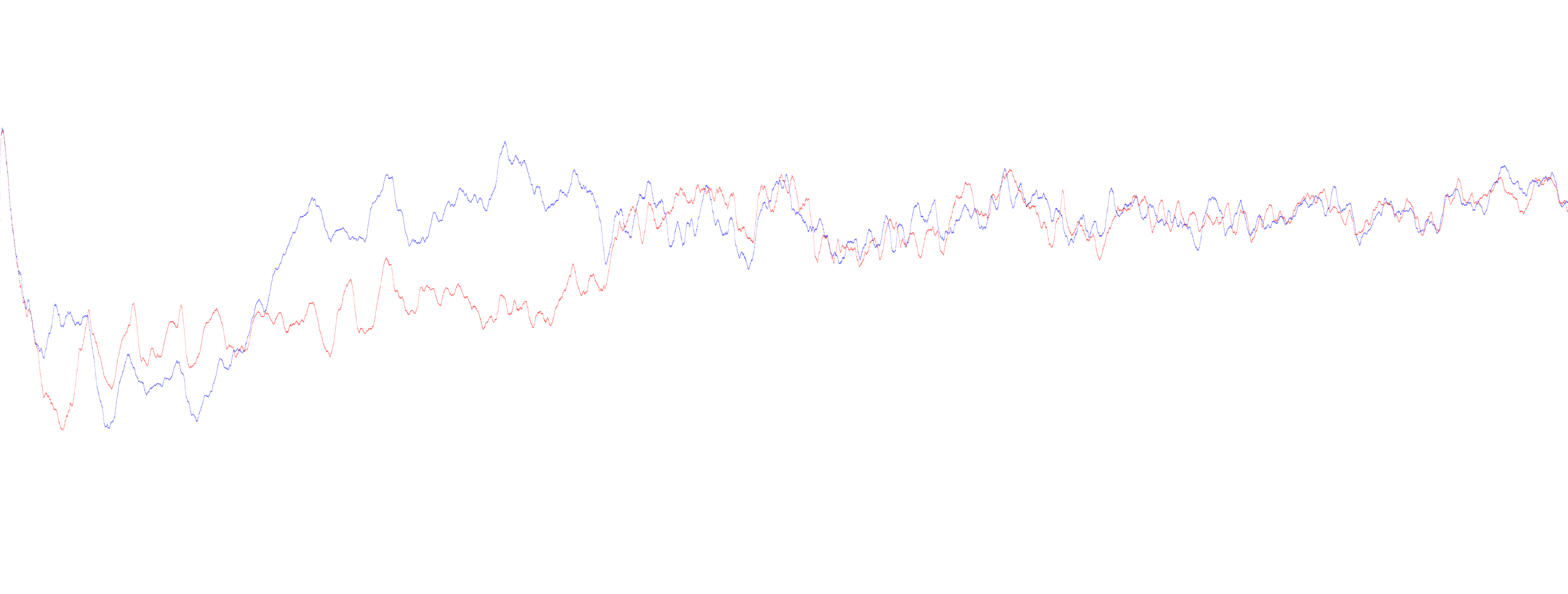 A graph of mobility for the Biham-Middleton-Levine traffic model corresponding to the lattice in File:Bml x 512 y 512 p 37 iterated 0.png and File:Bml x 512 y 512 p 37 iterated 32000.png. The vertical axis represents the number of cars that can move, and the horizontal axis represents the turn. The vertical axis is normalized so tha the top edge is one and the bottom edge is zero; likewise the horizontal axis has a range of 0 to 32000. This was created with C++. Source code is located at user:Purpy Pupple/BML.